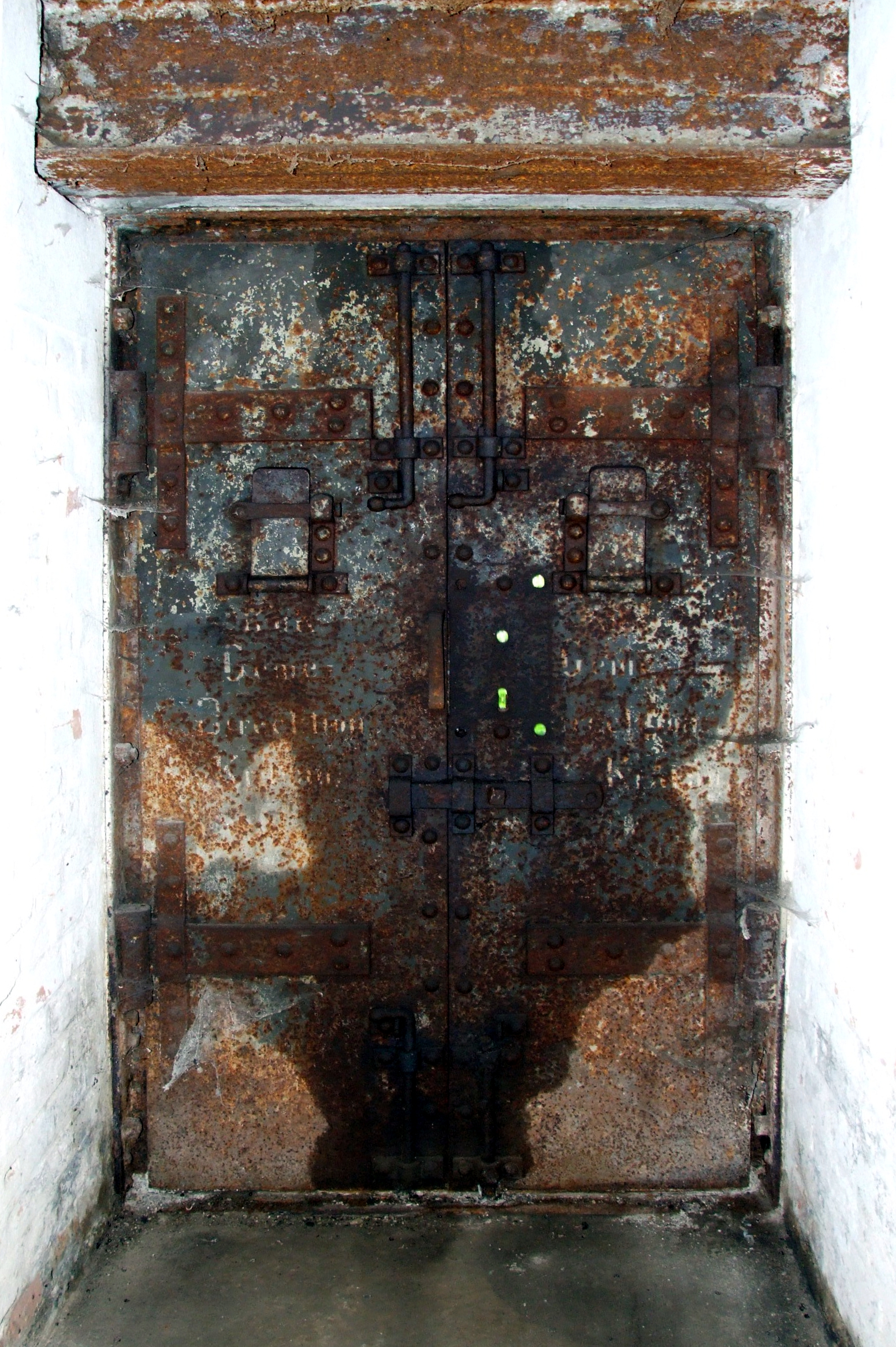 Fortress Kraków (Festung Krakau) - Fort Bielany - original doors